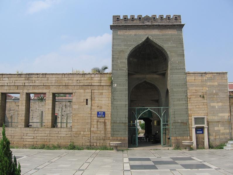 Quanzhou Mosque, said to be the oldest mosque in China. （Quanzhou City, Fujian province.) Taken by Ariel Steiner.